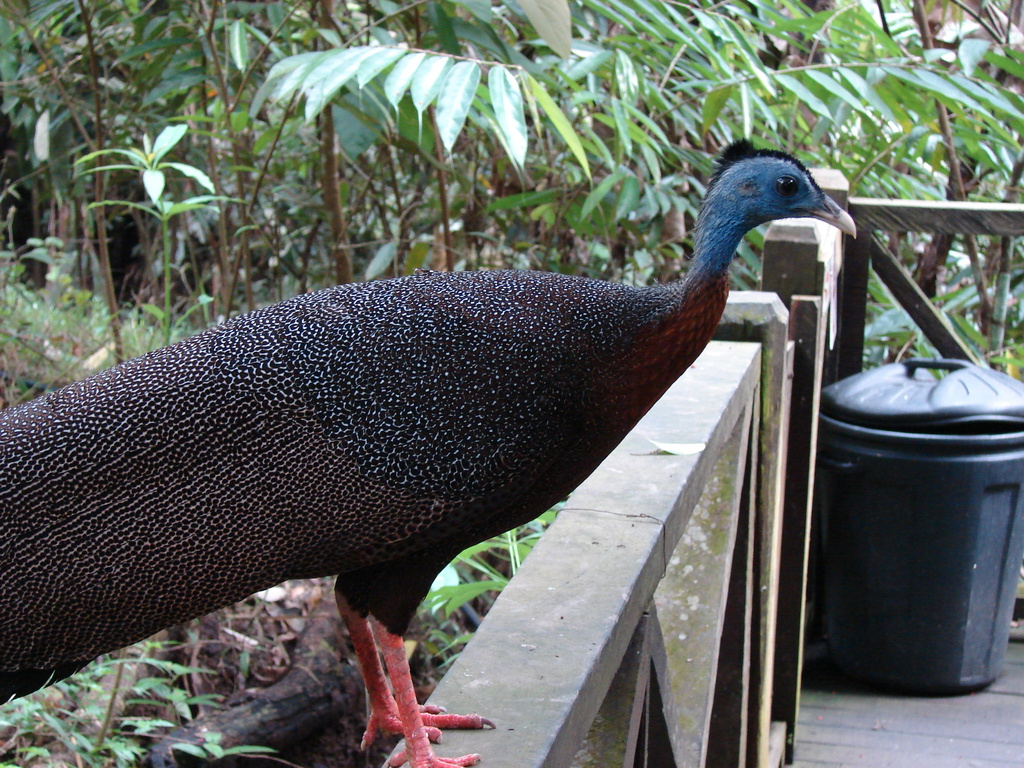 A male Great Argus at Lok Kawi Wildlife Park, Malaysia.